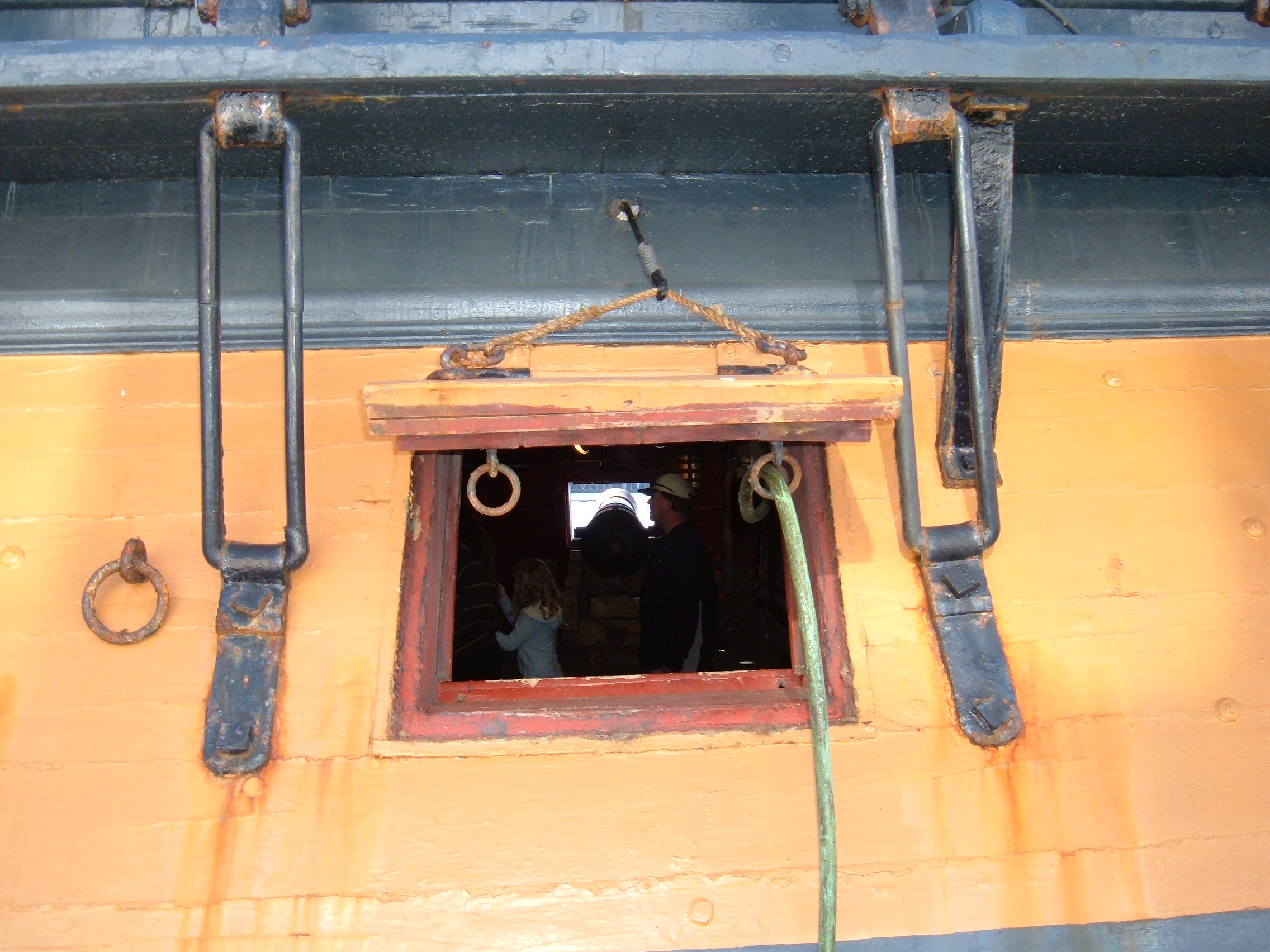 The port side of the HMS Surprise at the Maritime Museum of San Diego.